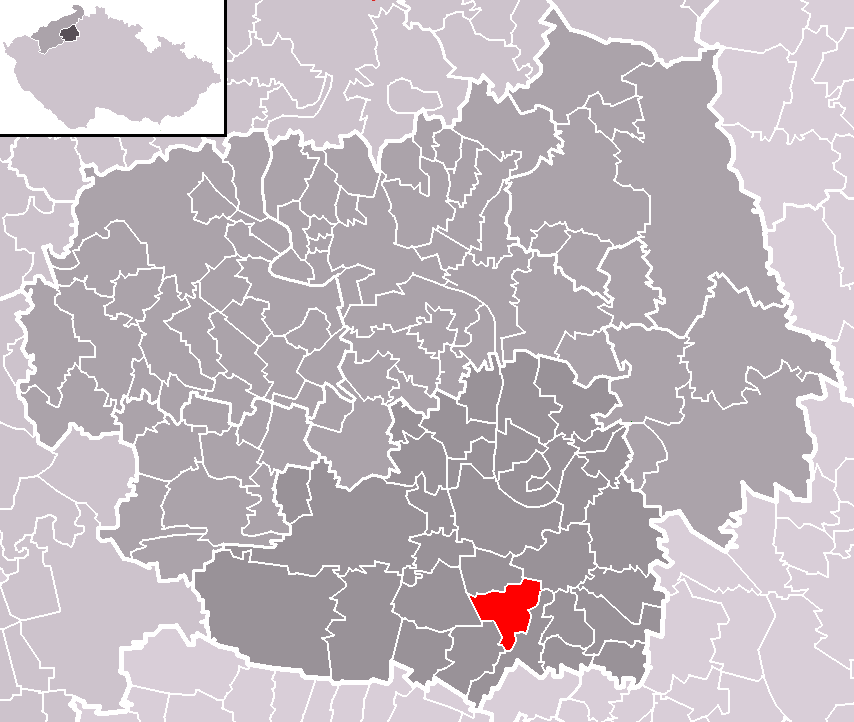 Location of Vražkov municipality within Litoměřice District and administrative area of Roudnice nad Labem as a Municipality with Extended Competence.